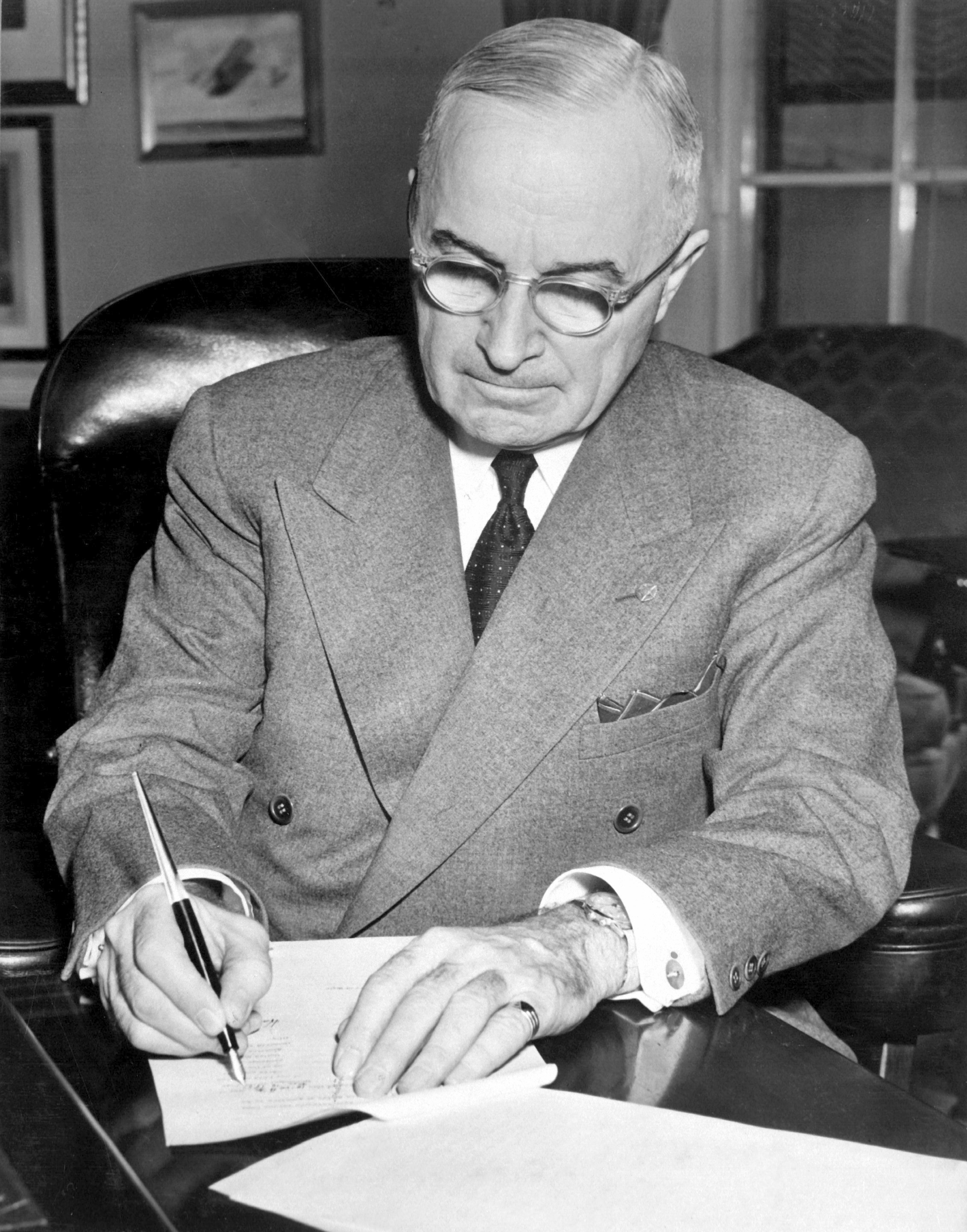 President Harry S. Truman is shown at his desk at the White House signing a proclamation declaring a national emergency.